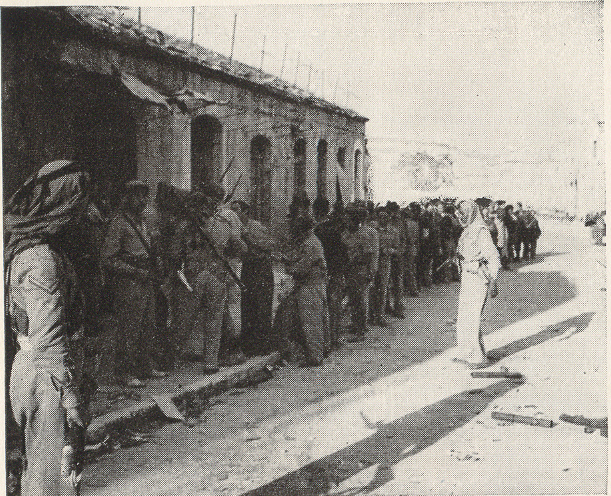 Haganah and Irgun fighters from Jerusalem's Jewish Quarter being taken to prisoner of war camp in Transjordan, May/June 1948.